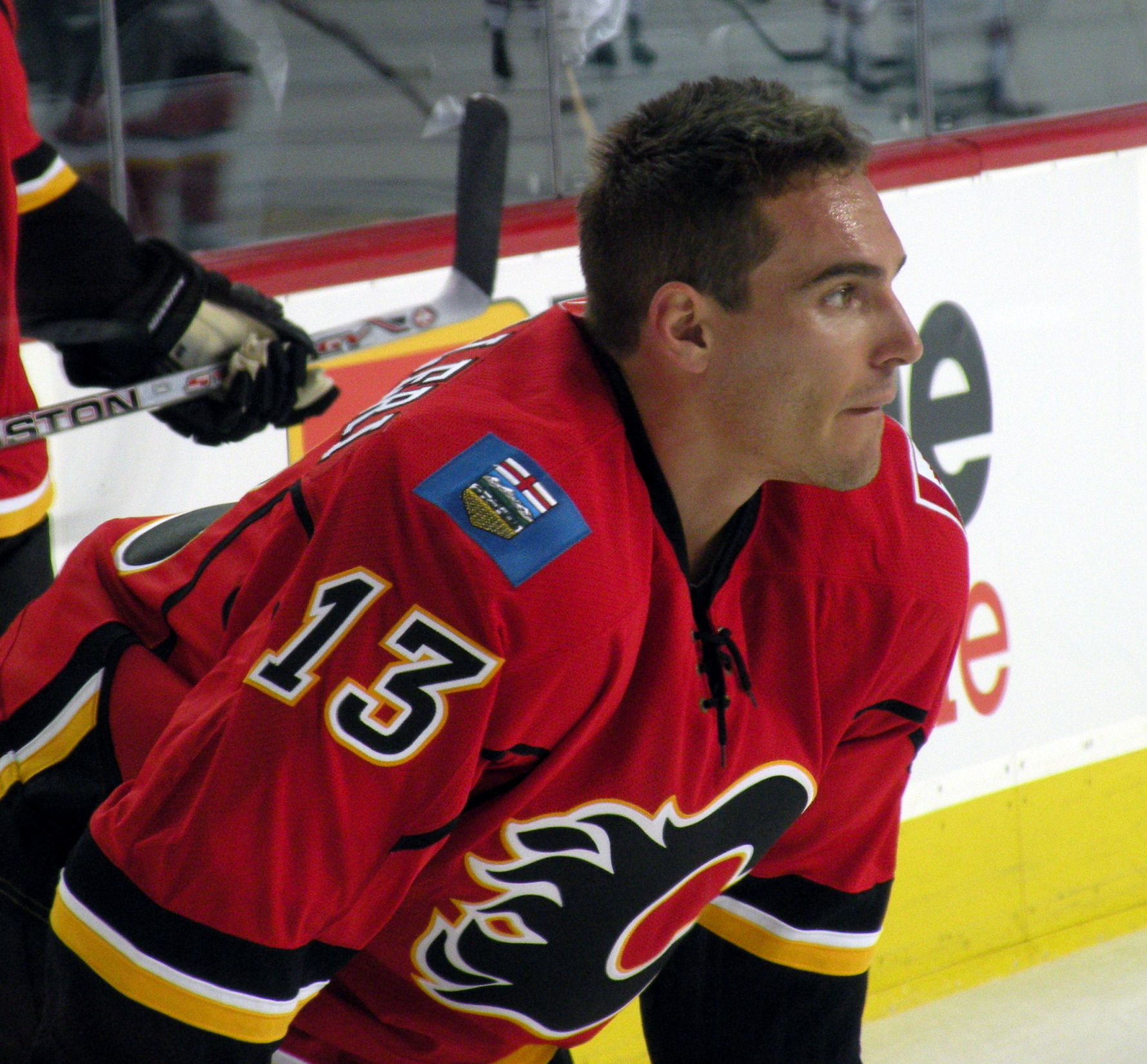 Calgary Flames player Michael Cammalleri during warm-up prior to a pre-season game against the Phoenix Coyotes.